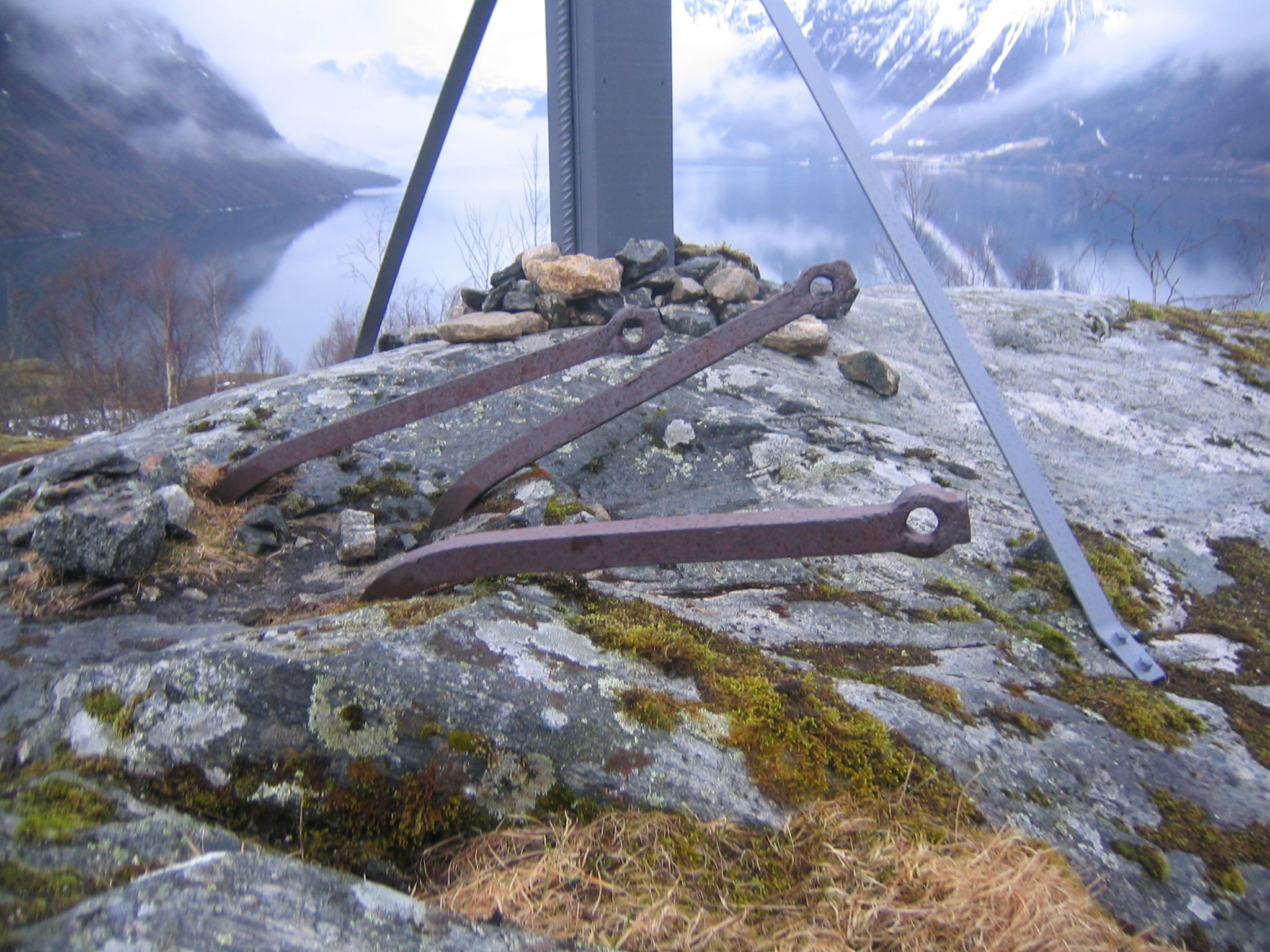 Monuments of the Loen avalanches i 1905 (ruins of), and 1936.